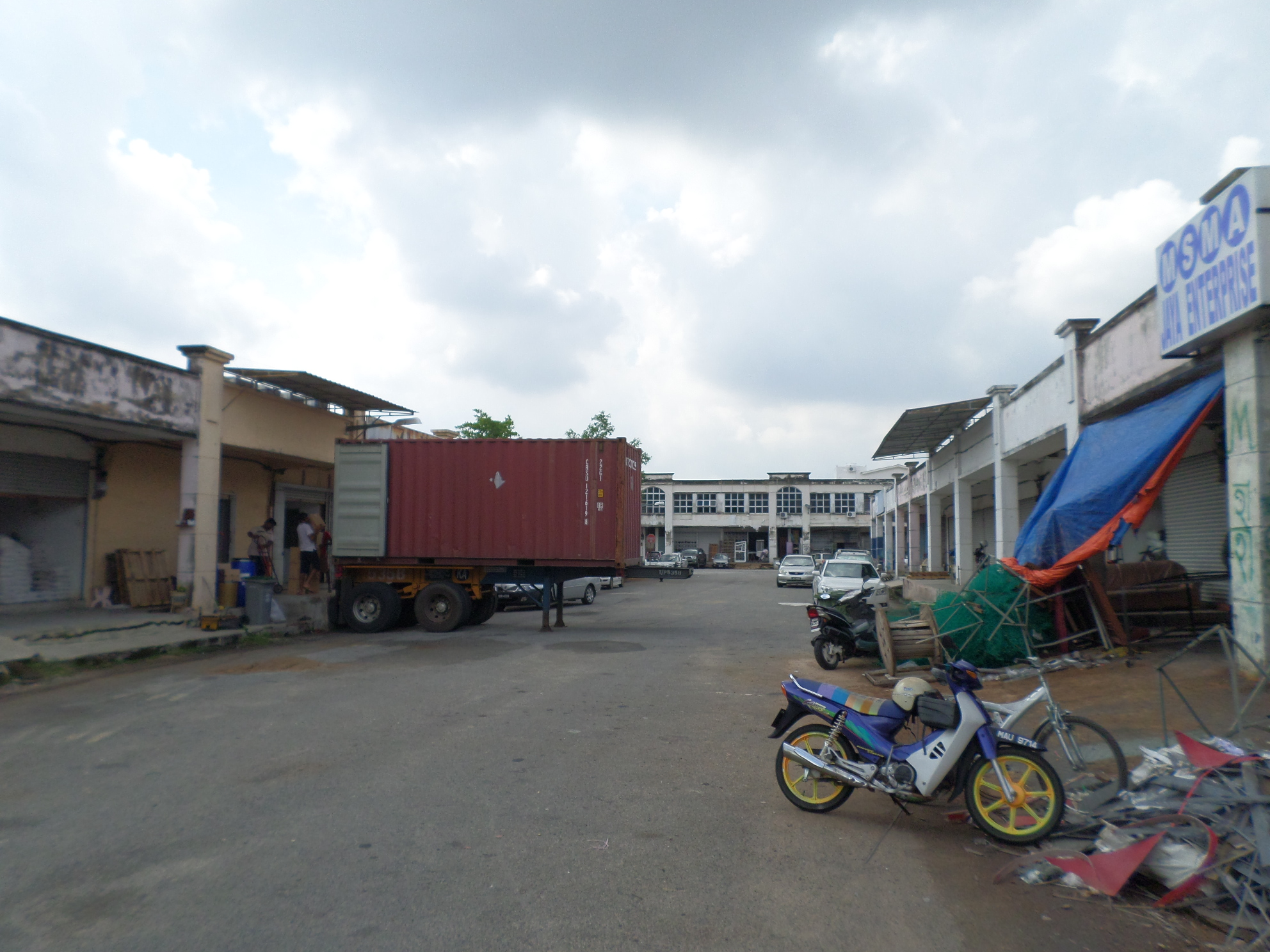 Batu Berendam Industrial Area, Batu Berendam, Malacca, MalaysiaBahasa Melayu: Kawasan Perindustrian Batu Berendam, Batu Berendam, Melaka, Malaysia